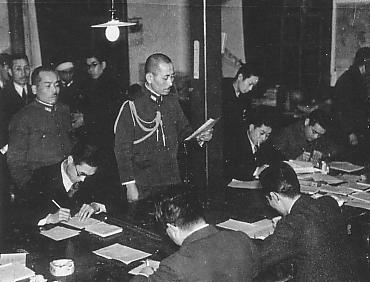 Announcement from Imperial General Headquarters (IJA)